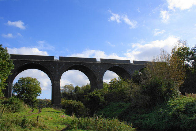 Somerton Viaduct The viaduct carrying the railway across the River Cary.